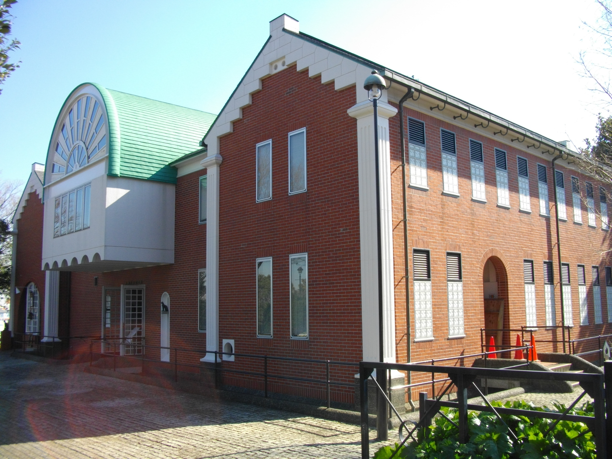 Osaragi Jiro Memorial Museum